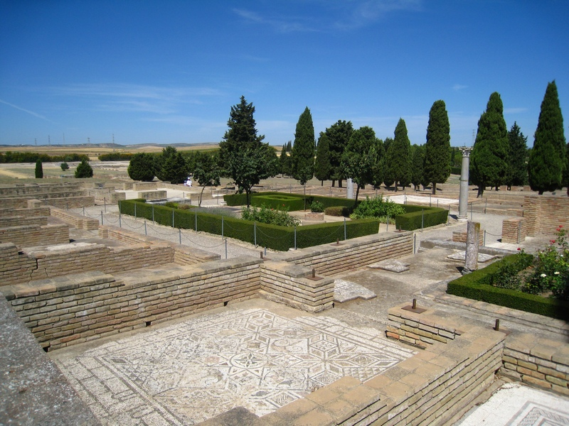 View over archeological site in Italica, Santiponce, Andalucia, Spain